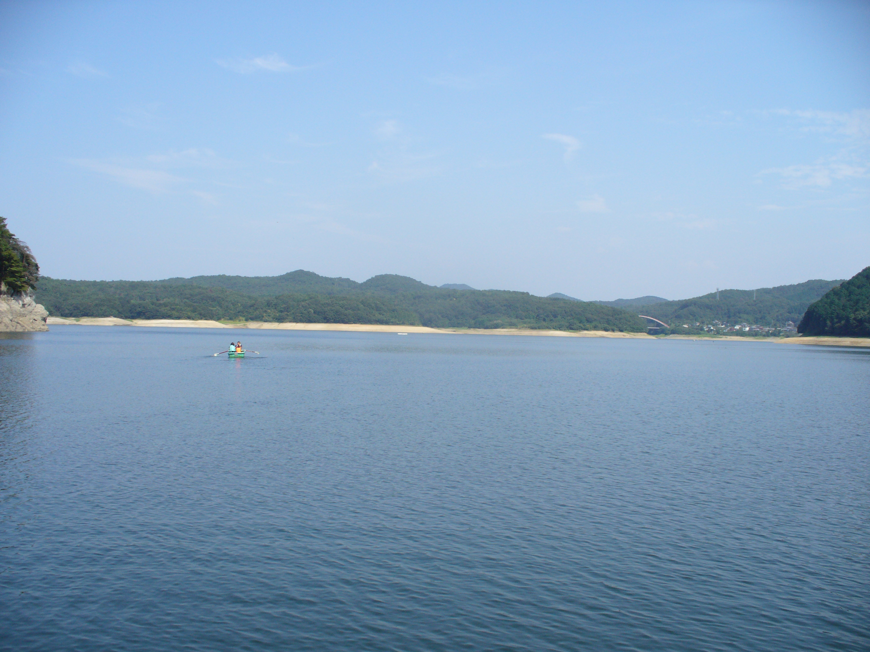 Photograph of Irukaike,taken in Inuyama city, Aichi, Japan.